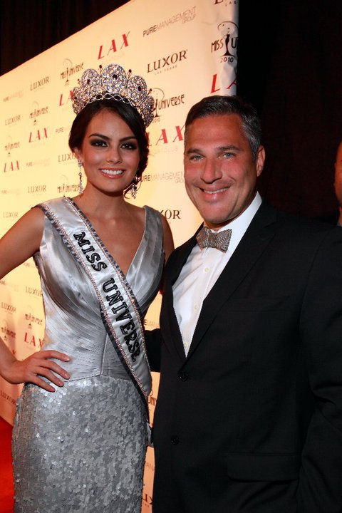 This is a picture of Michael Wildes with Jimena Navarrete, taken in 2010.